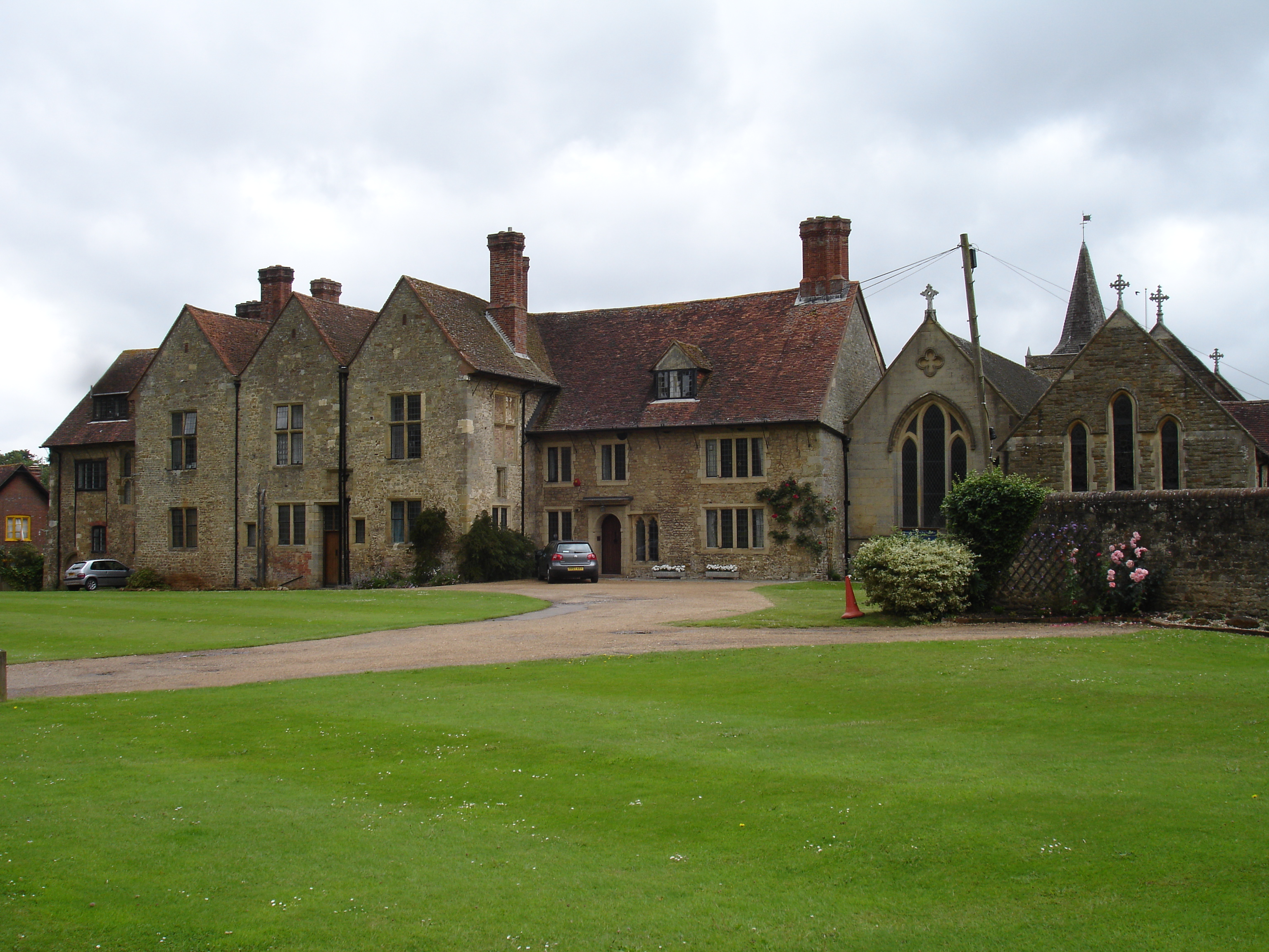 Photograph of Easebourne Priory, Sussex, England